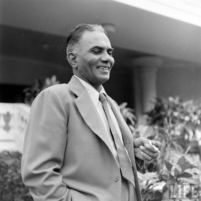 Mir Laik Ali, the last prime minister of Hyderabad during Operation Polo in 19r8